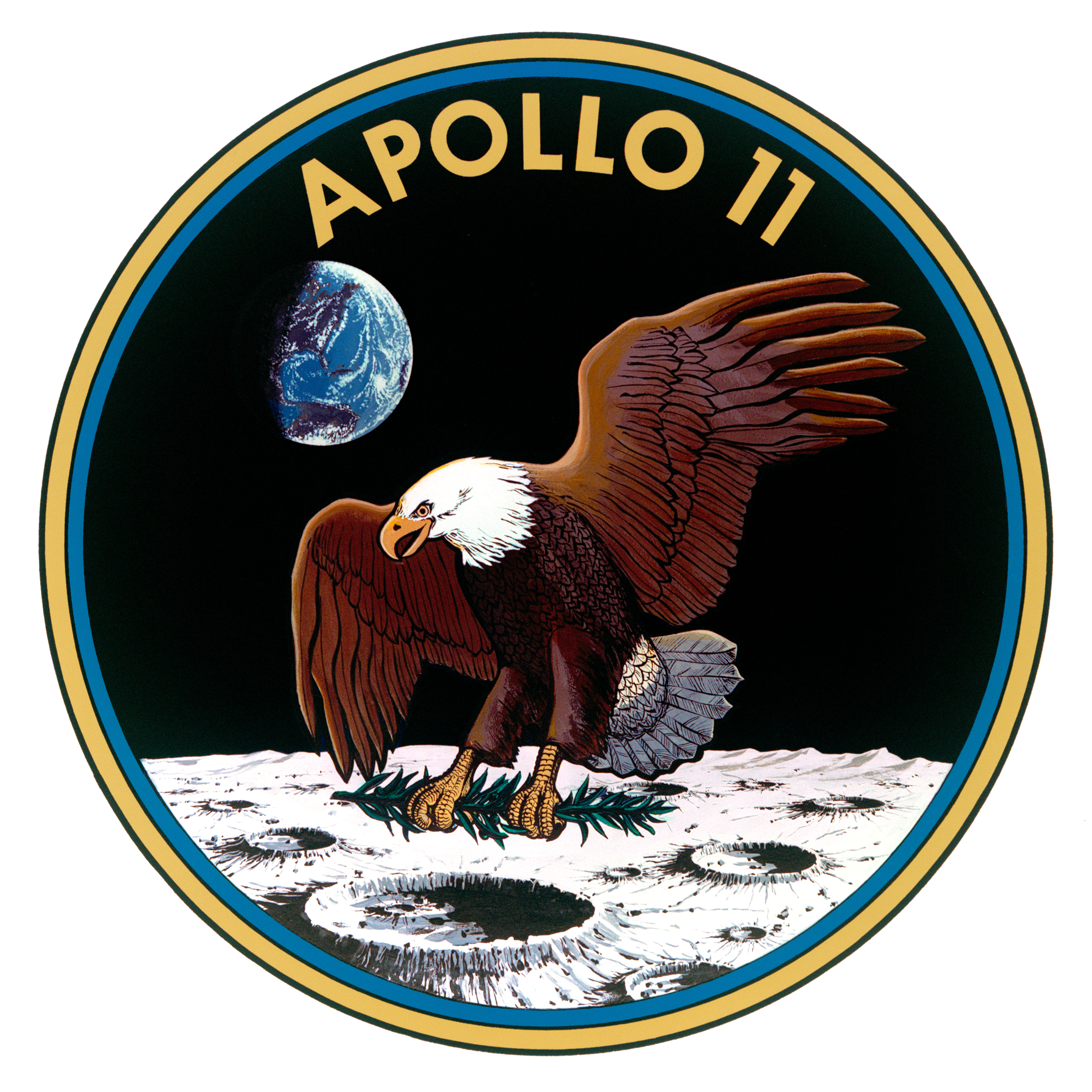 The official Apollo 11 mission patch. Apollo 11 is the first manned lunar landing by the Apollo/Saturn V.